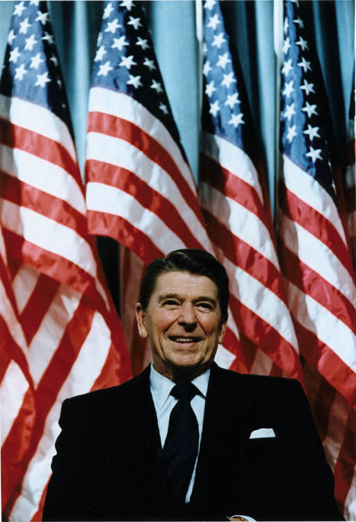 President Ronald Reagan at a Rally for Senator Durenberger in Minneapolis, Minnesota, 1982.